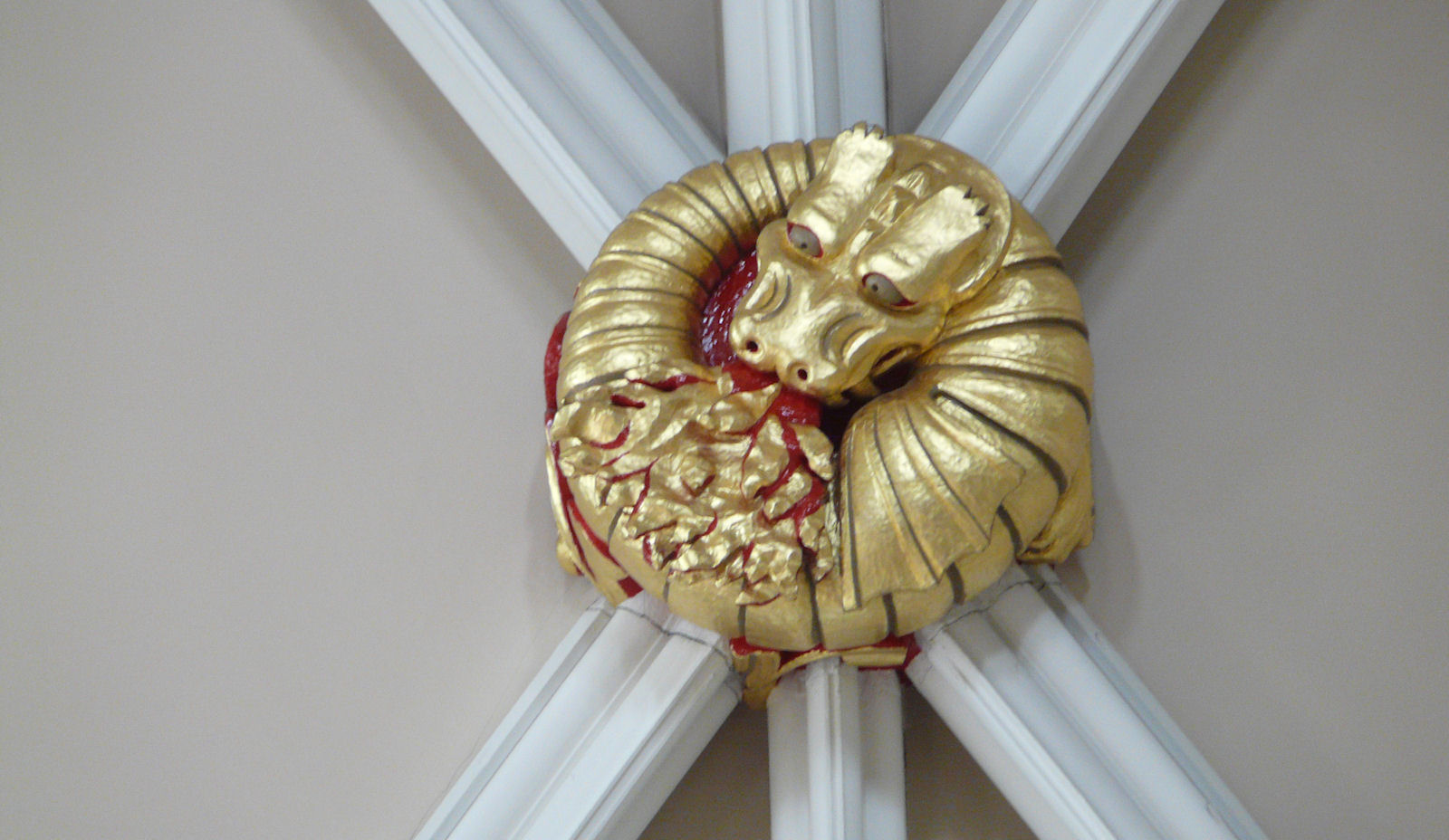 A boss on the vault in York Minster, York, England